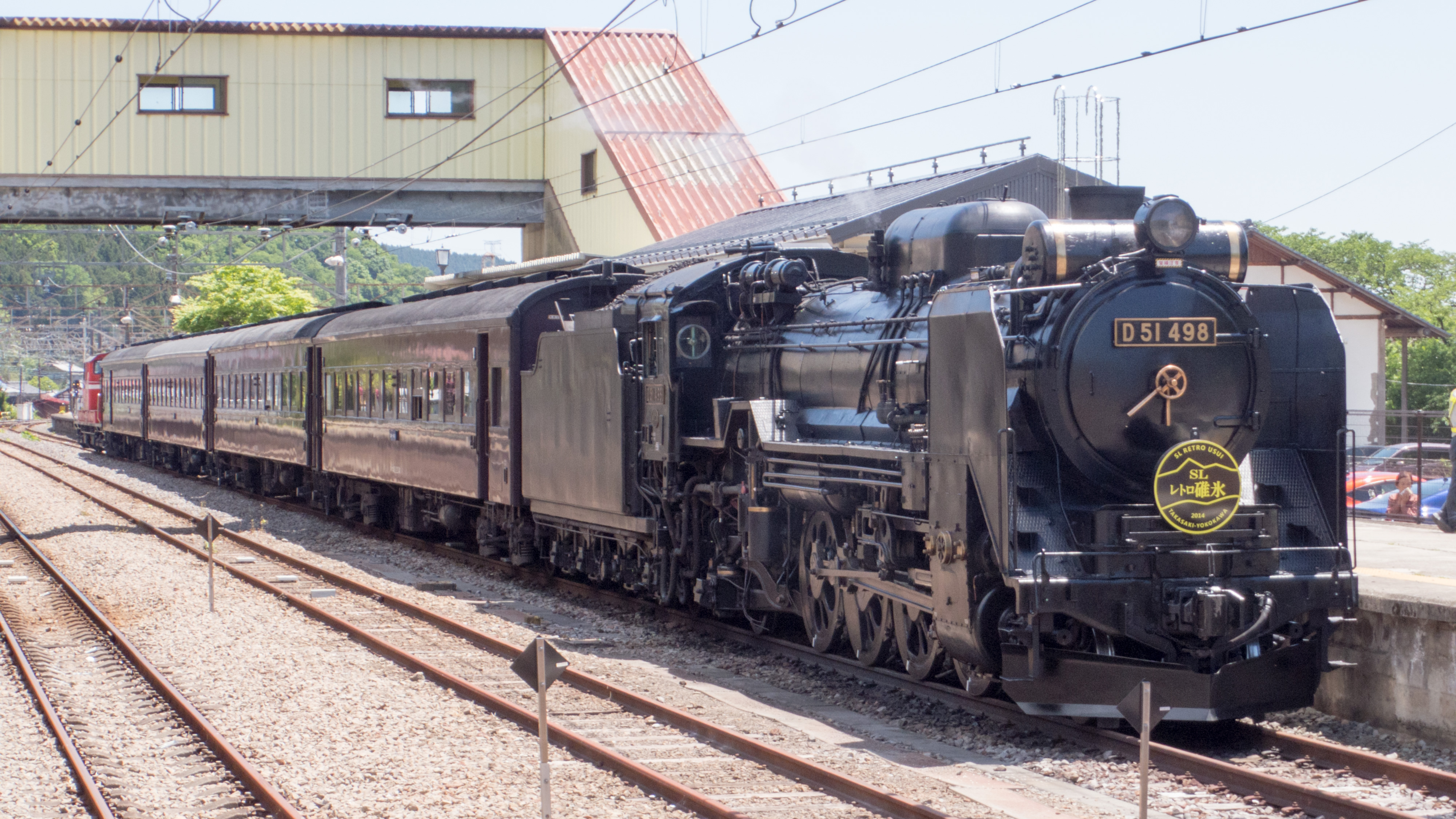 JNR Class D51 steam locomotive D51 498 restored and operated by JR East)